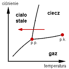 Freezing